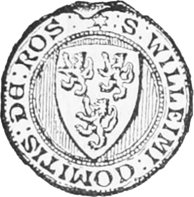 Seal of William II, Earl of Ross (died 1323).